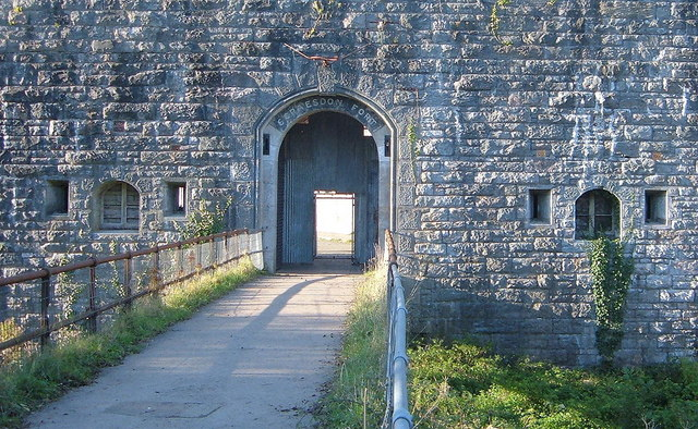 Scraesdon Fort - Entrance The entrance - seen here broken by an attack by a single bloke in wellies having come under considerable sustained fire from all angles.